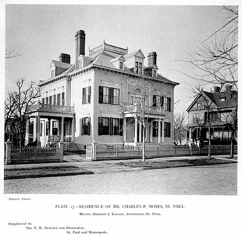 View of the residence of St. Paul businessman Charles Phelps Noyes and his wife Emily Gilman Noyes, 89 Virginia Street, St. Paul, Minnesota. Courtesy of the Minnesota Historical Society.